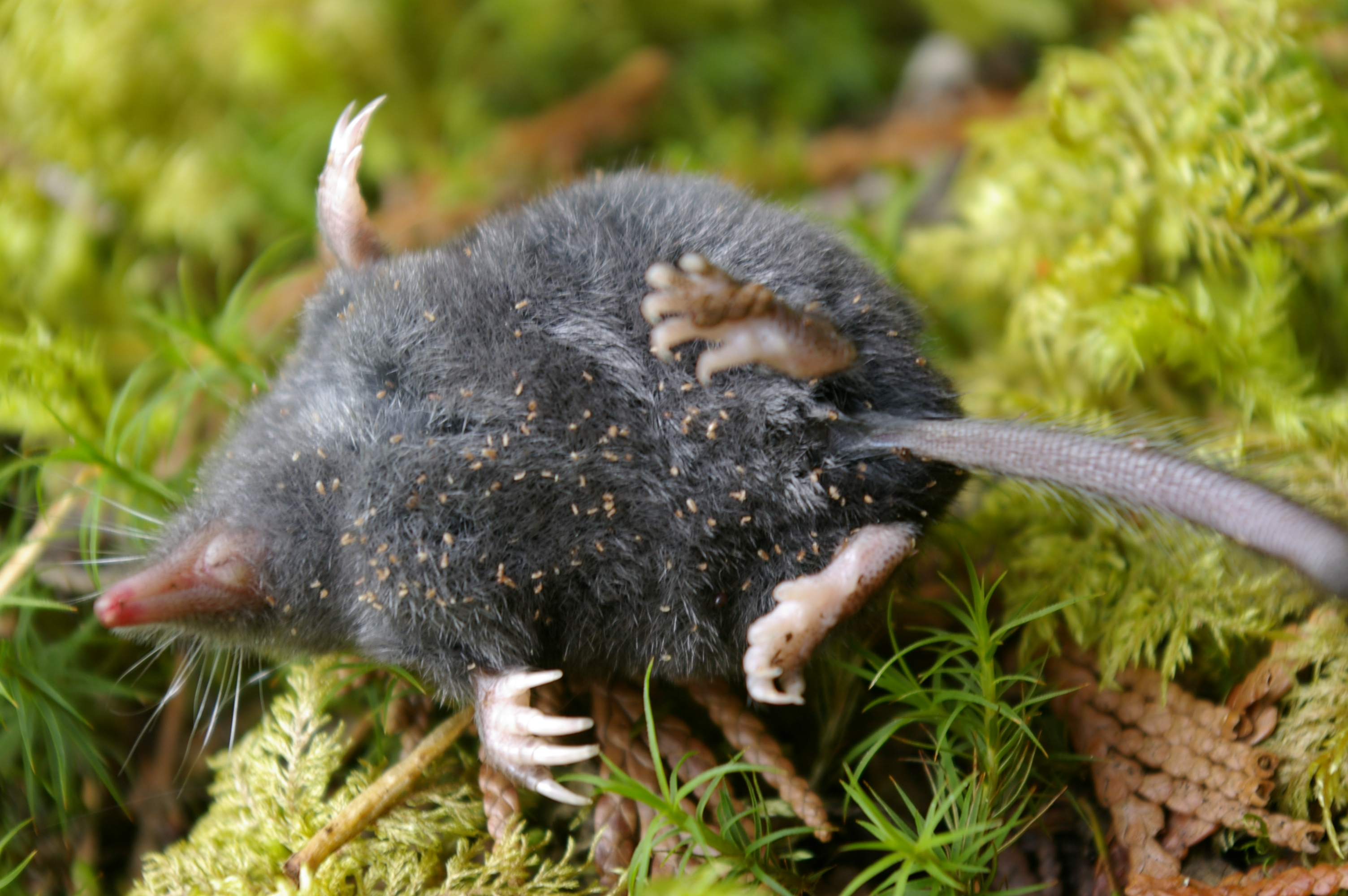 American shrew-mole, image taken at the Skagit River Trail, British Columbia, Canada